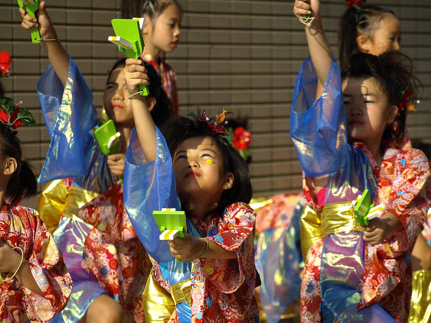 Hamakoi Dance Festival 2009 at the pedway between Yokohama Sogo department store and Yokohama Sky Building, Yokohama, Japan.